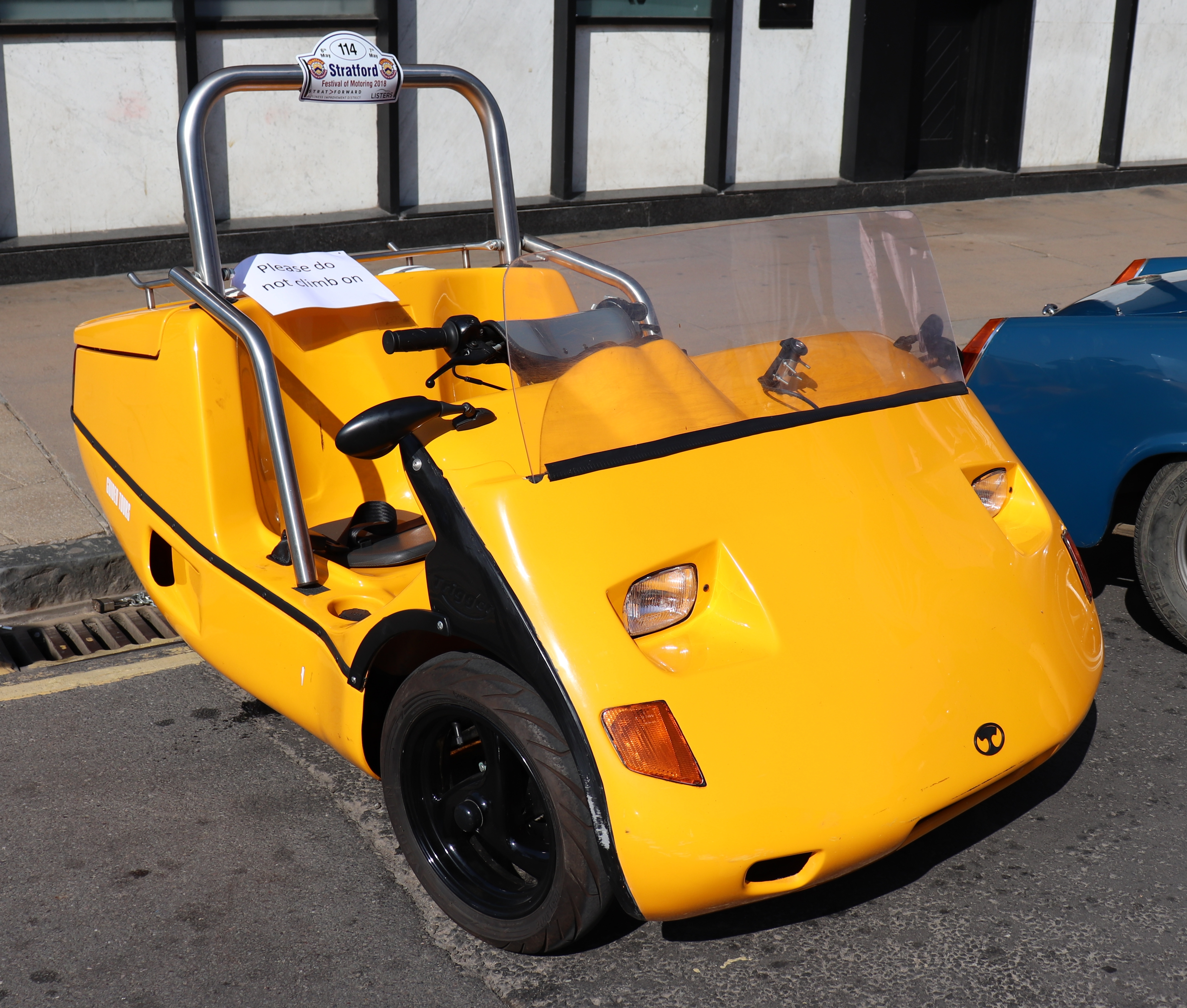 2011 Trigger 50 Mk1 Front Taken at the Stratford Festival of Motoring 2018